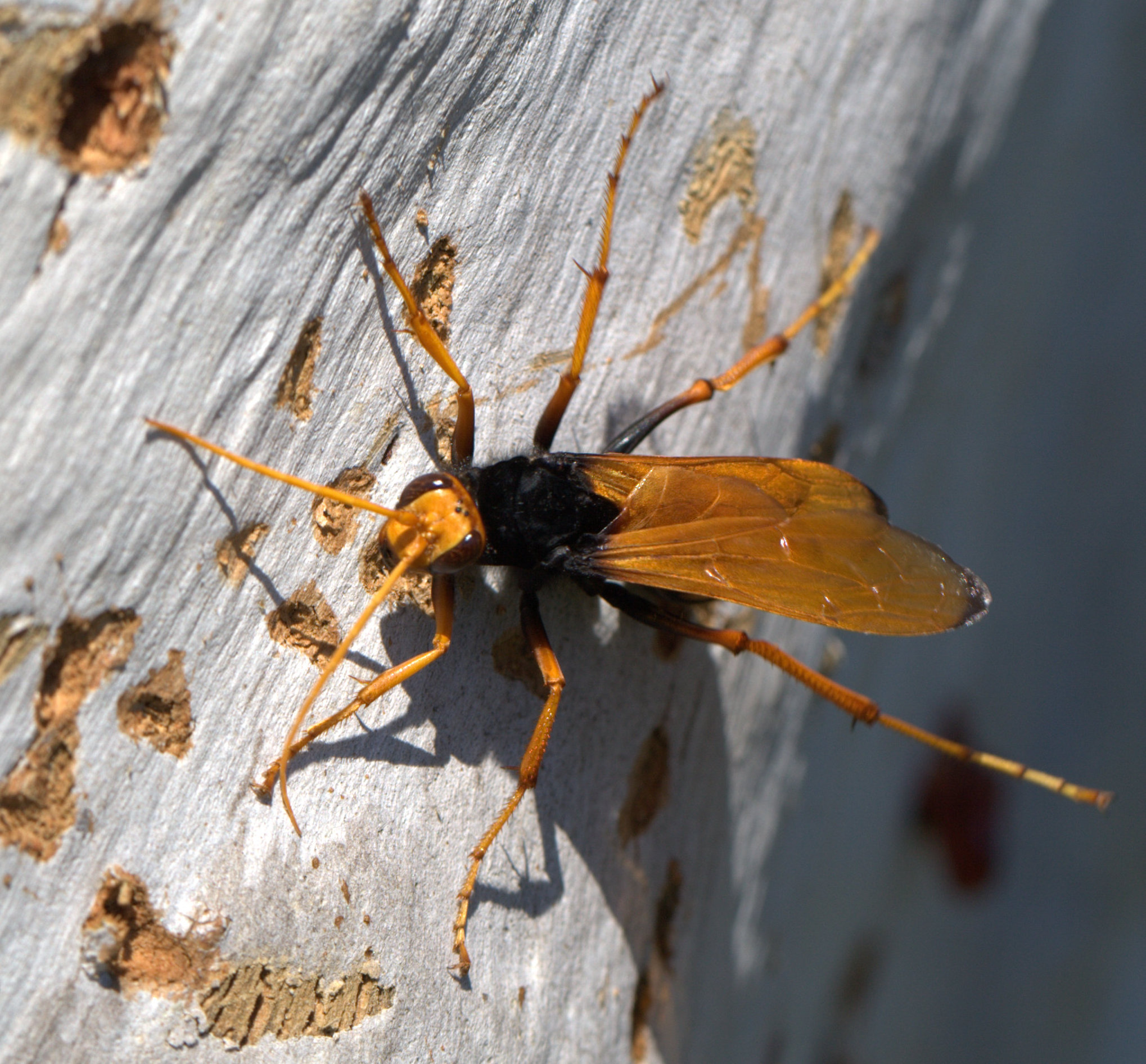 A spider wasp (Cryptocheilus bicolor) at St John's Ashfield in Sydney, NSW, Australia.